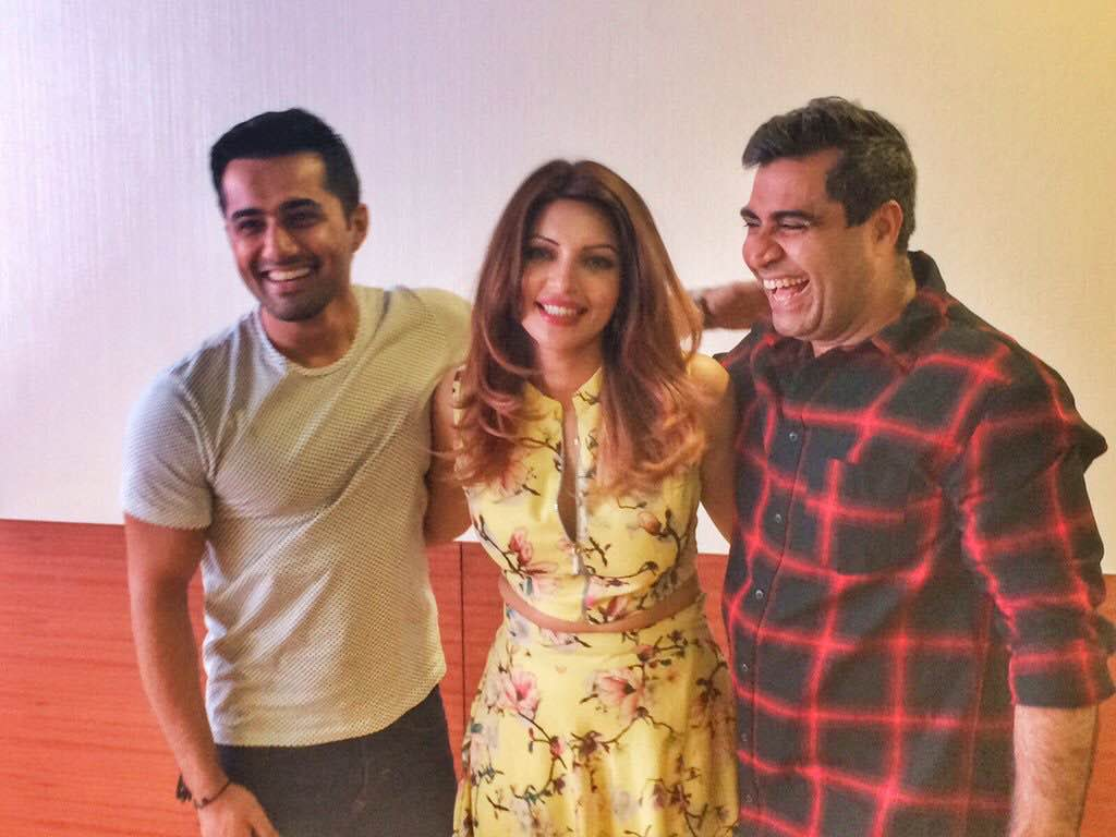 Shama Sikander at the screening of short film "Sexaholic."